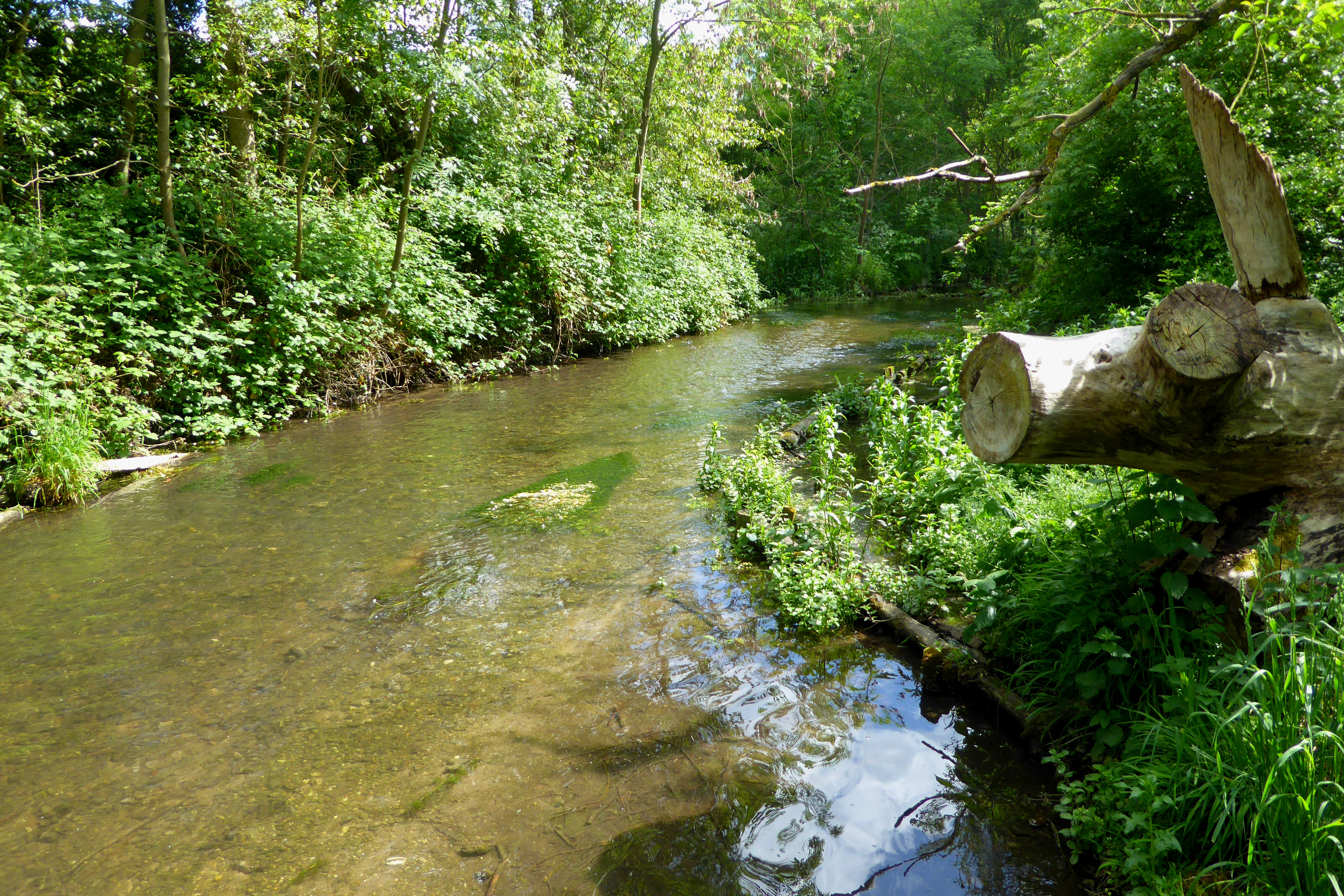 The River Cray passing through Foots Cray Meadows in the London Borough of Bexley.